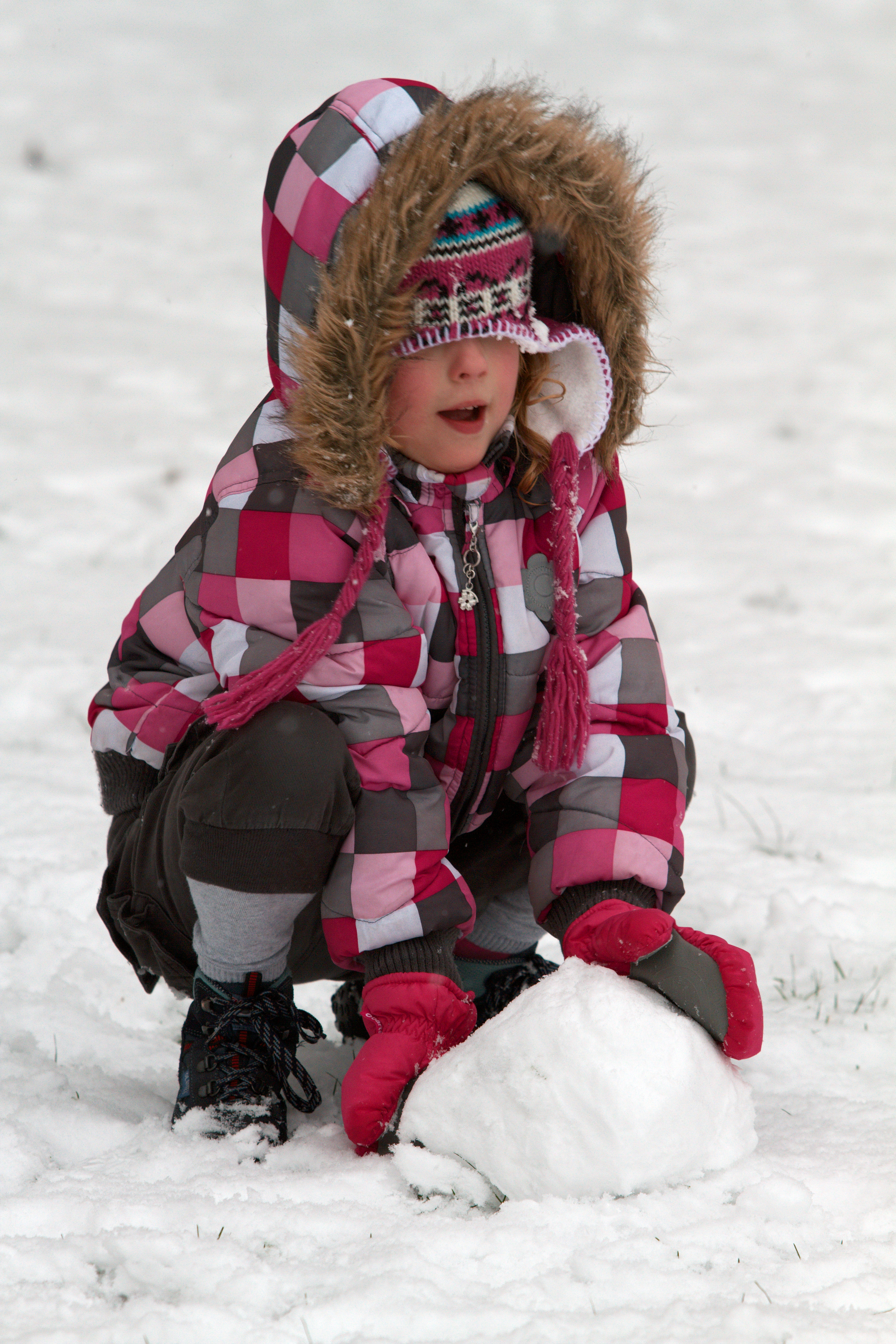 I can't see